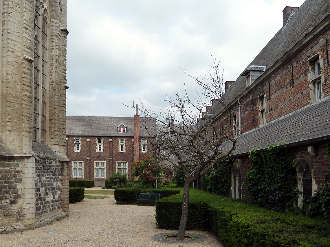 Beguinage Tienen